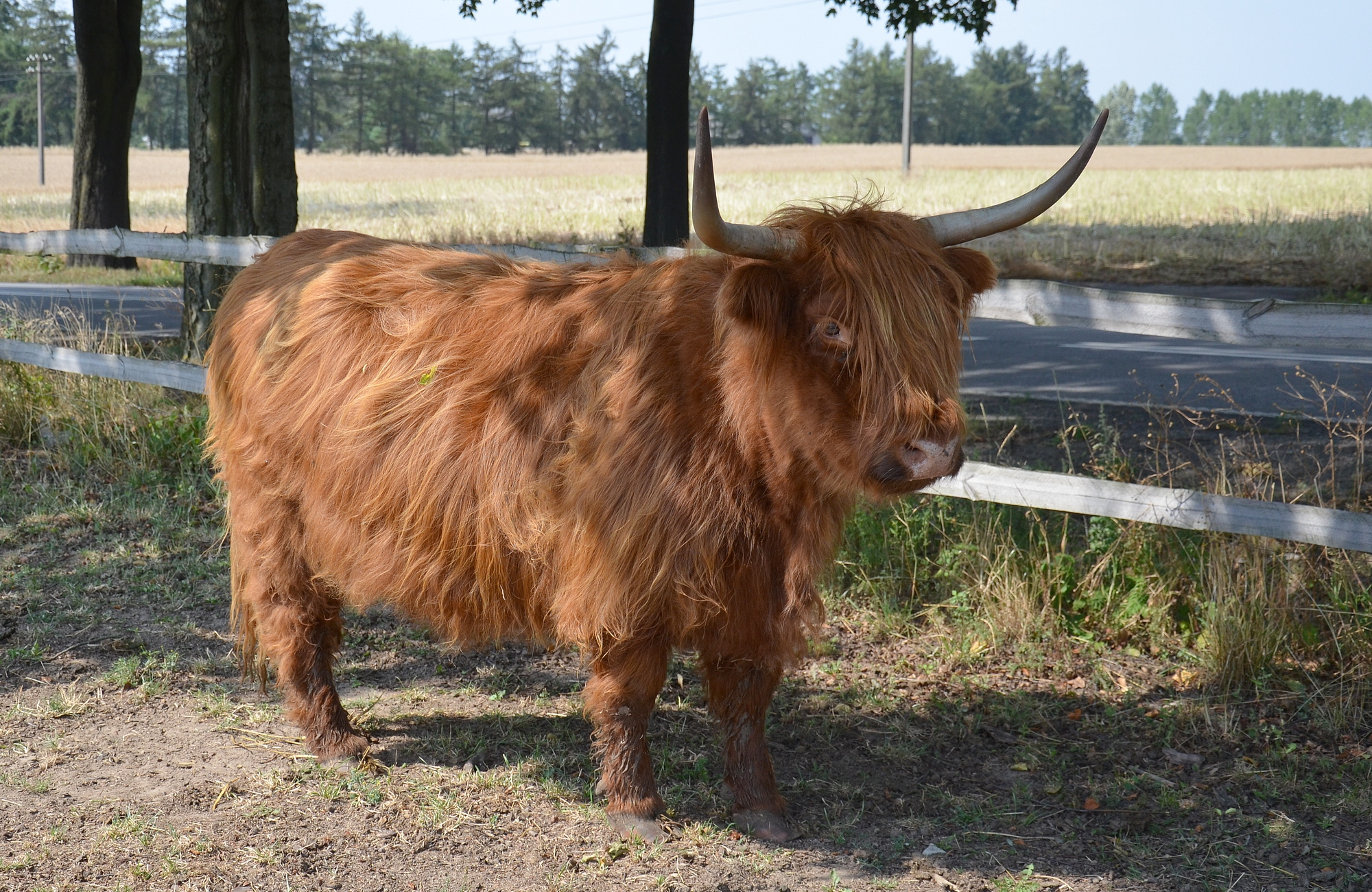 Highland cattle, cow